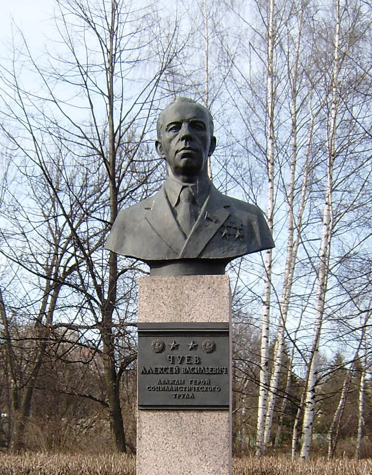 Bust of A.V.Chuev